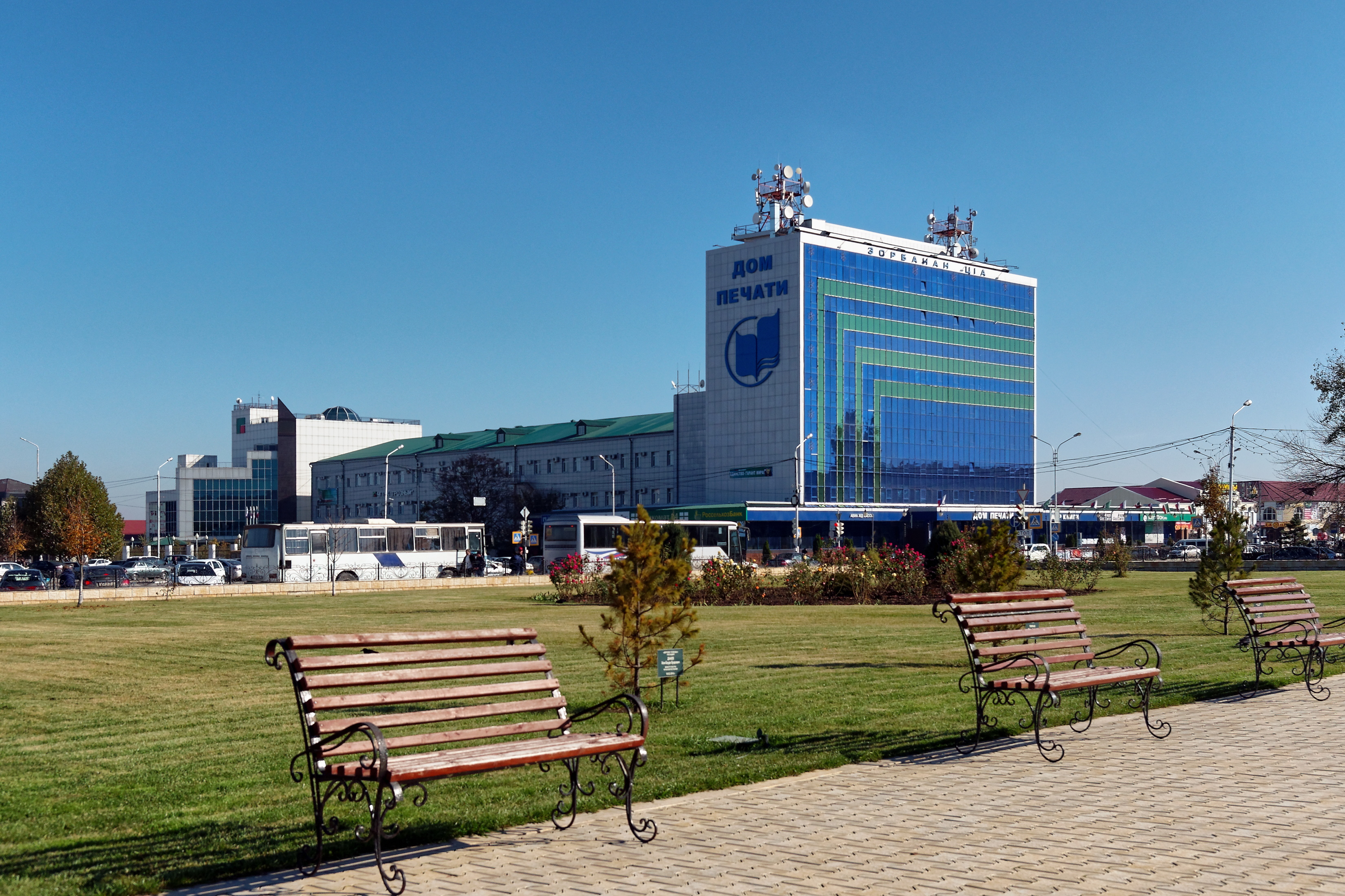 Grozny. House of Press